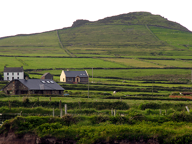 An Bhinn Mheanach: One of the "Three Sisters" This is the middle peak in this range of three hills. Its height is 140 metres. This picture was taken on gpr Q3490907033, on a bearing of 345 degrees.